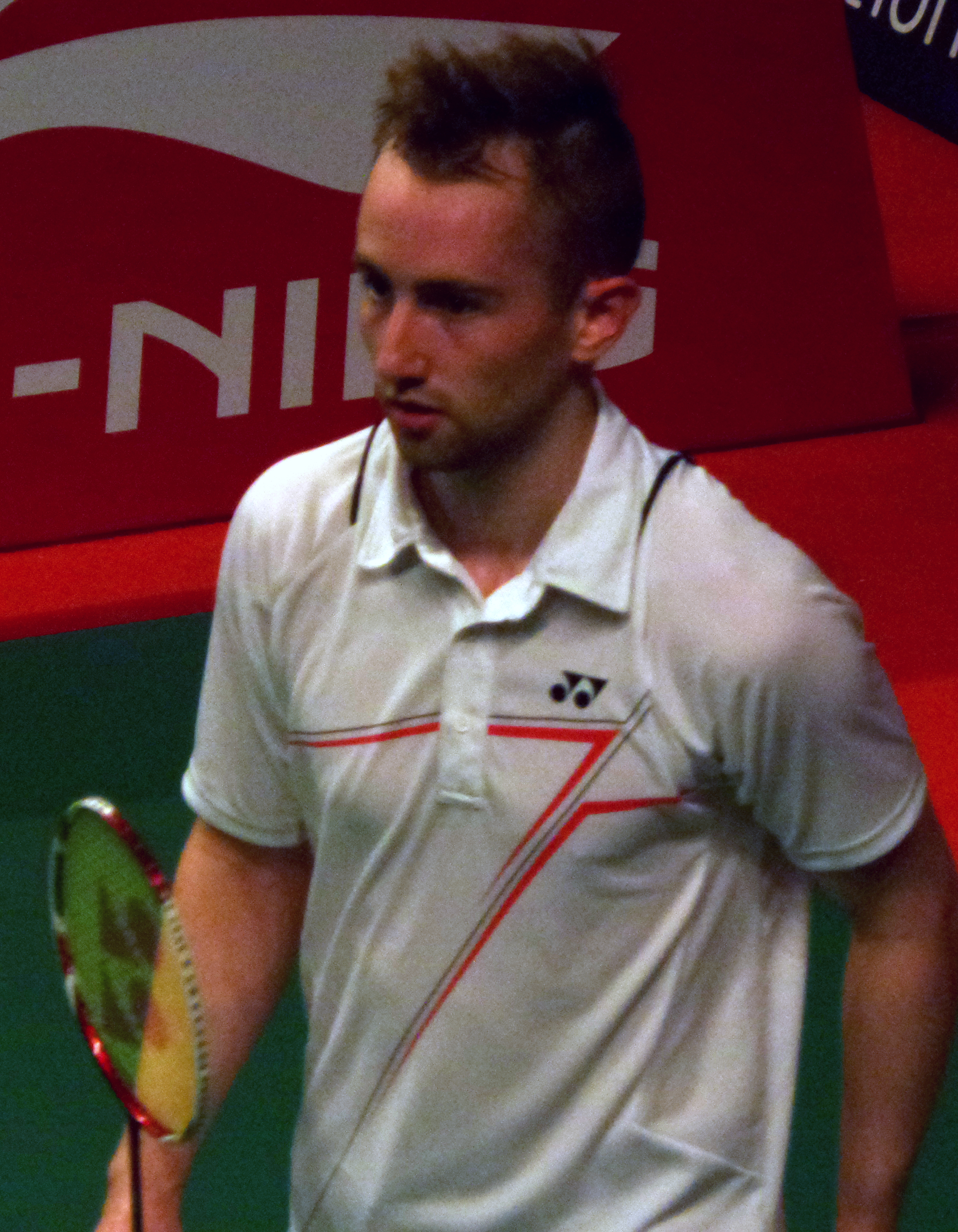 Sam Magee in action during the second day of 2015 BWF World Champs 2015